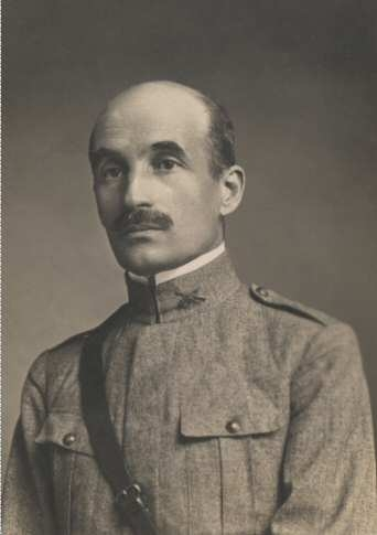 José Vicente de Freitas, Portuguese general and politician. The picture is from before 1930 (circa 1926). Published at the time.